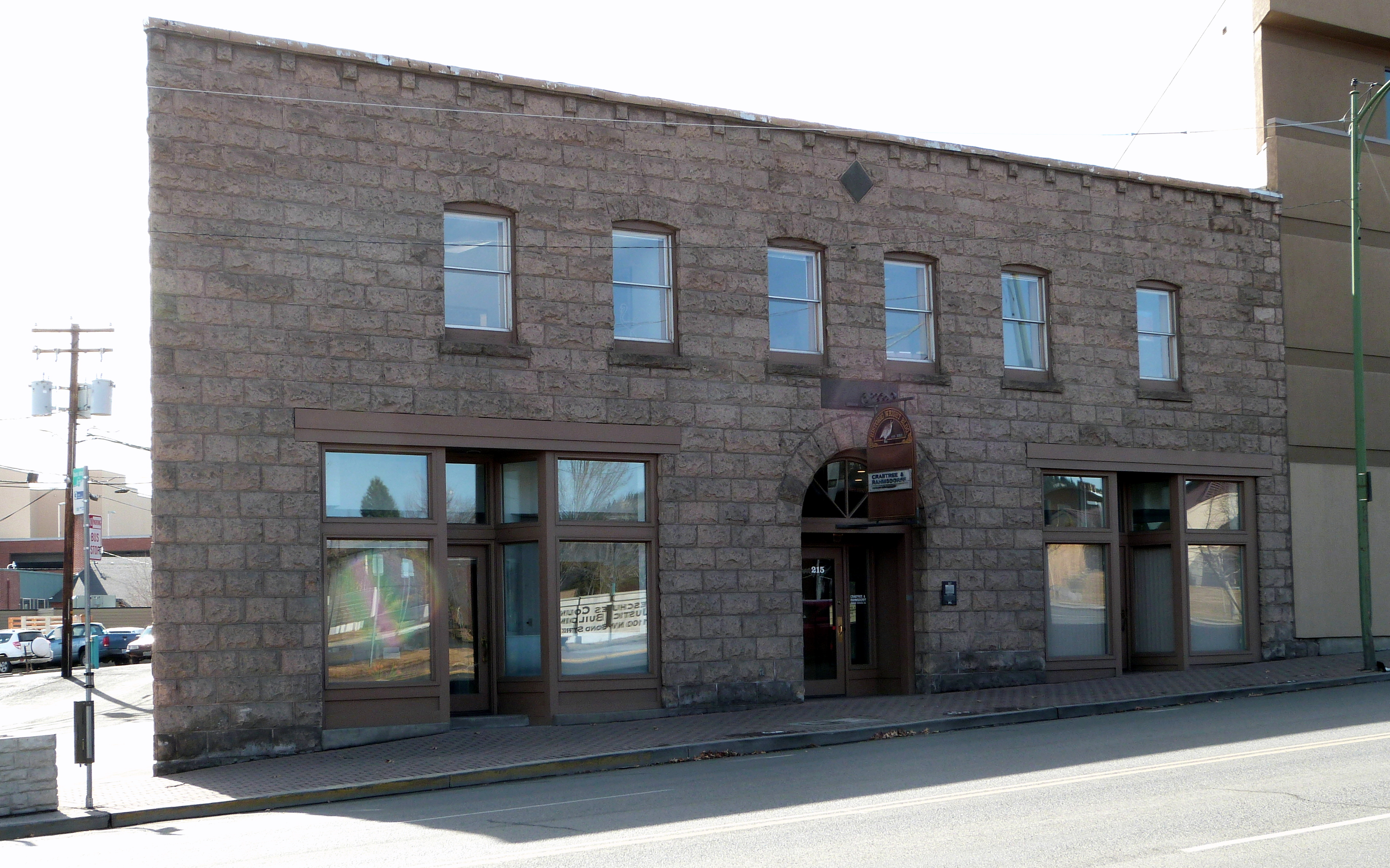 The historic New Taggart Hotel (built 1911), located at 215 Northwest Greenwood Avenue in Bend, Oregon, United States, is listed on the US National Register of Historic Places.